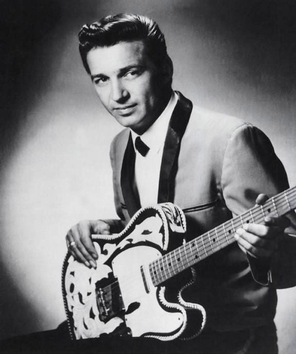 Waylon Jennings promotional picture